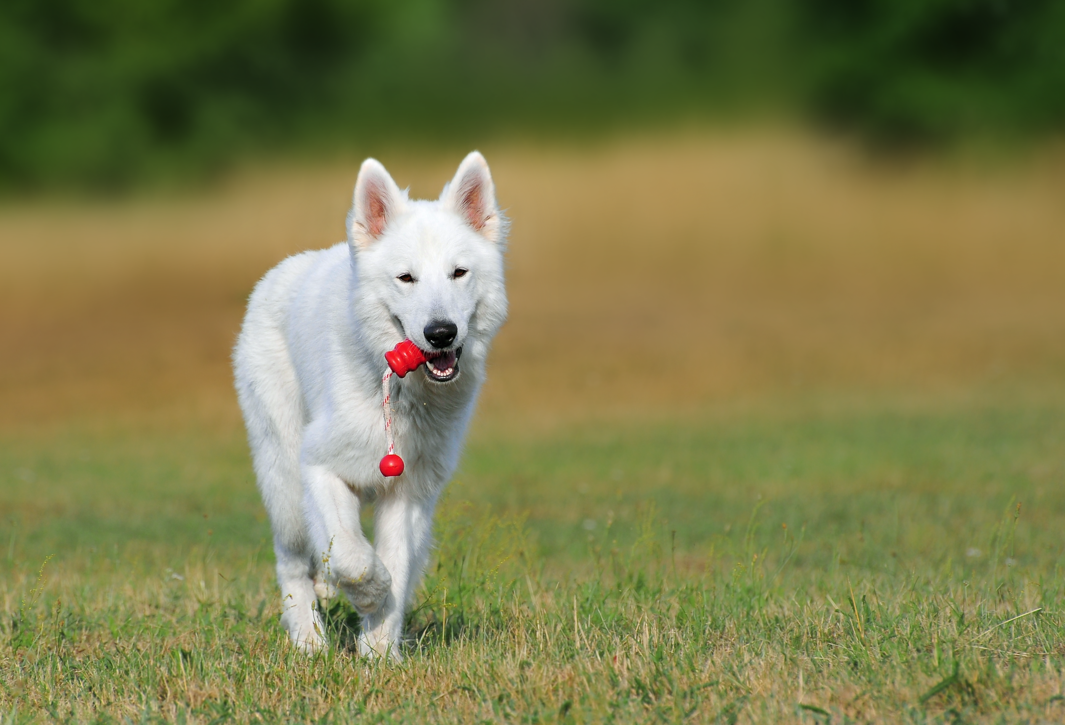 Berger Blanc Suisse